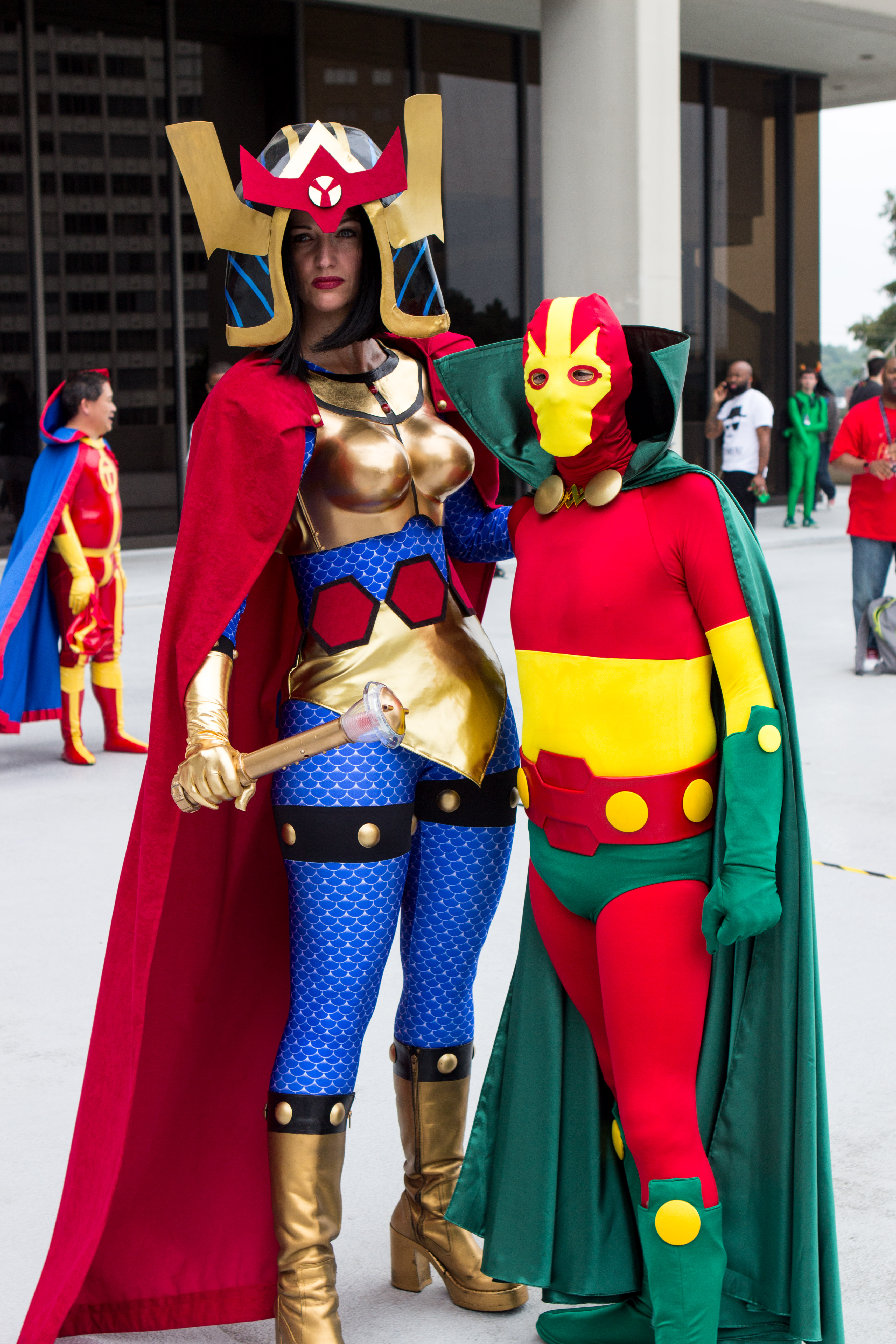 Cosplay of Big Barda and Mister Miracle (from DC Comics) at Dragon*Con 2013.